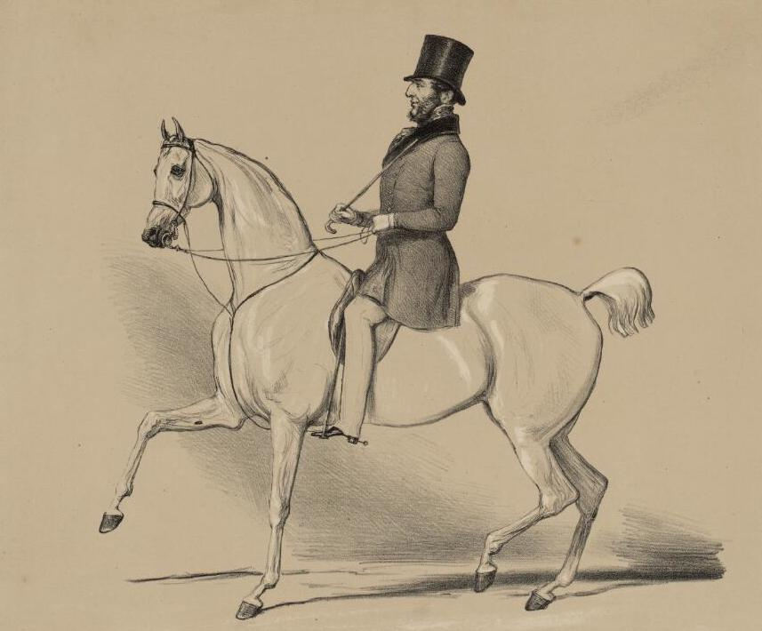 A portrait from the Welsh Portrait Collection at the National Library of Wales. Depicted person: Henry Somerset, 7th Duke of Beaufort – British politician